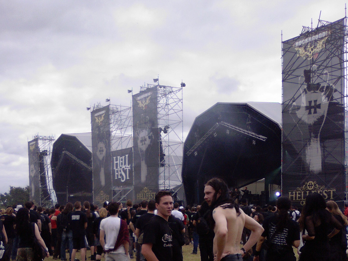 Mainstage and Secondstage of the Hellfest Summer Open Air 2008 (Clisson, France)